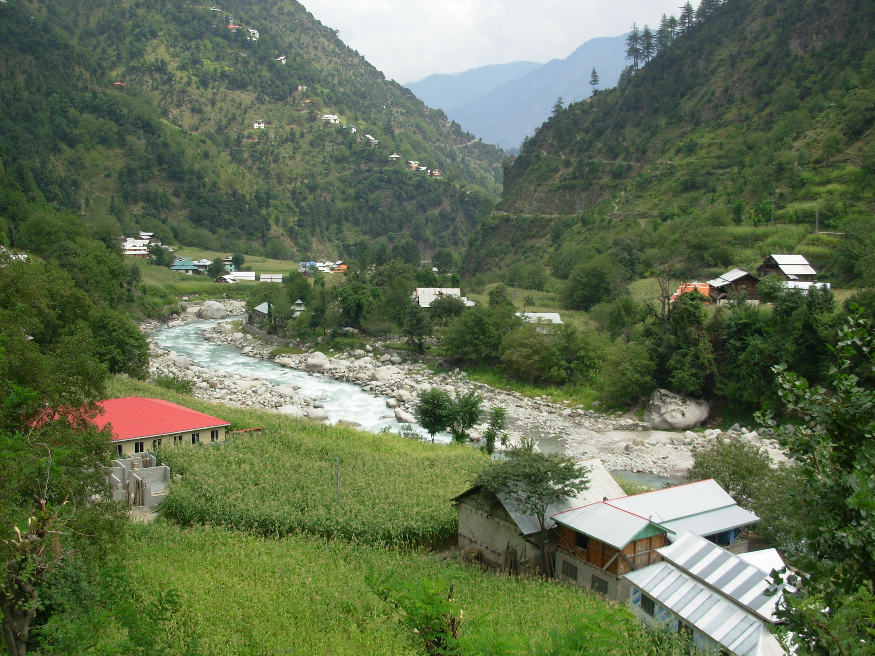 Kashmir Pakistan